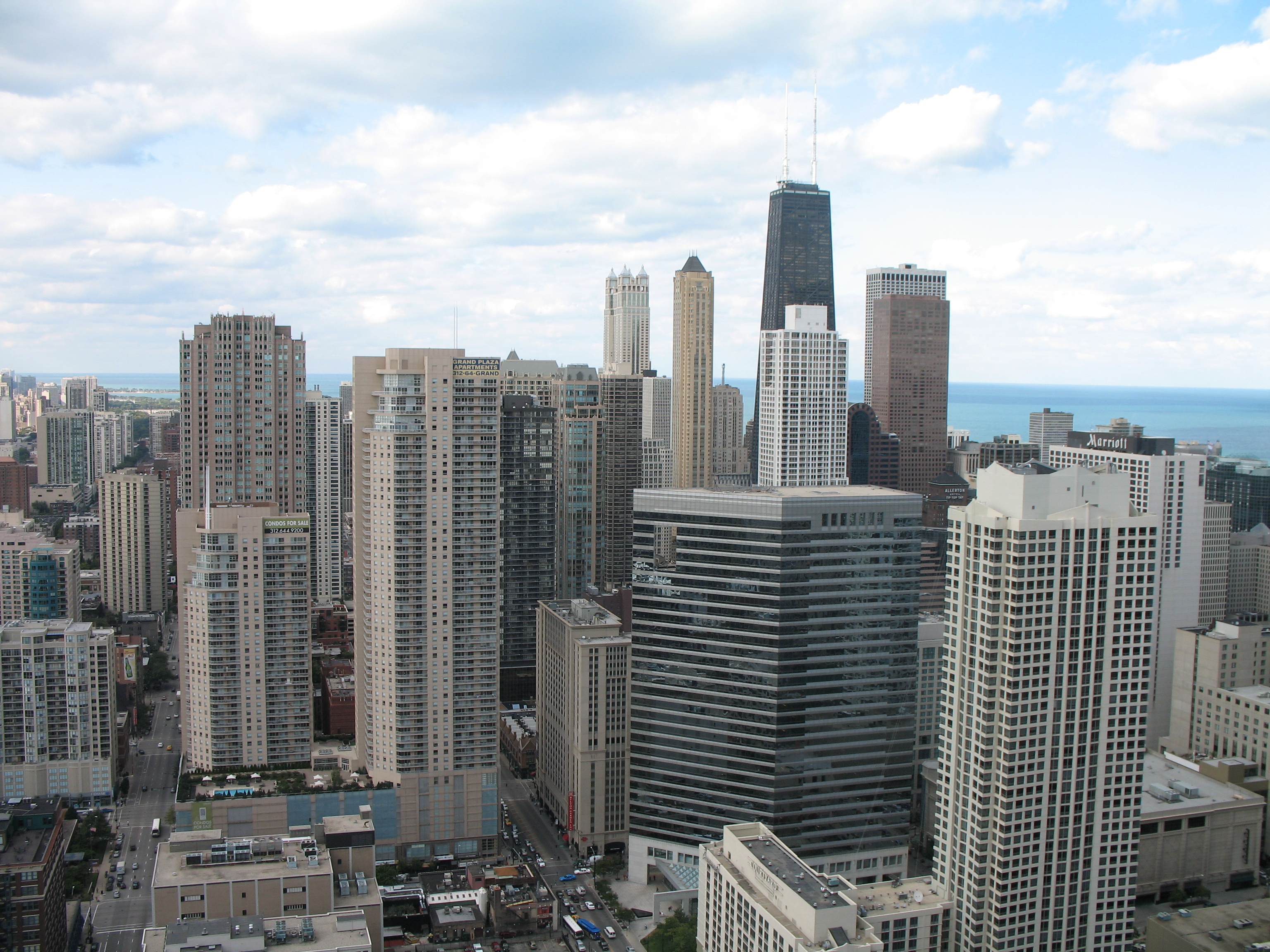 Streeterville, Chicago, IL 60611, USA